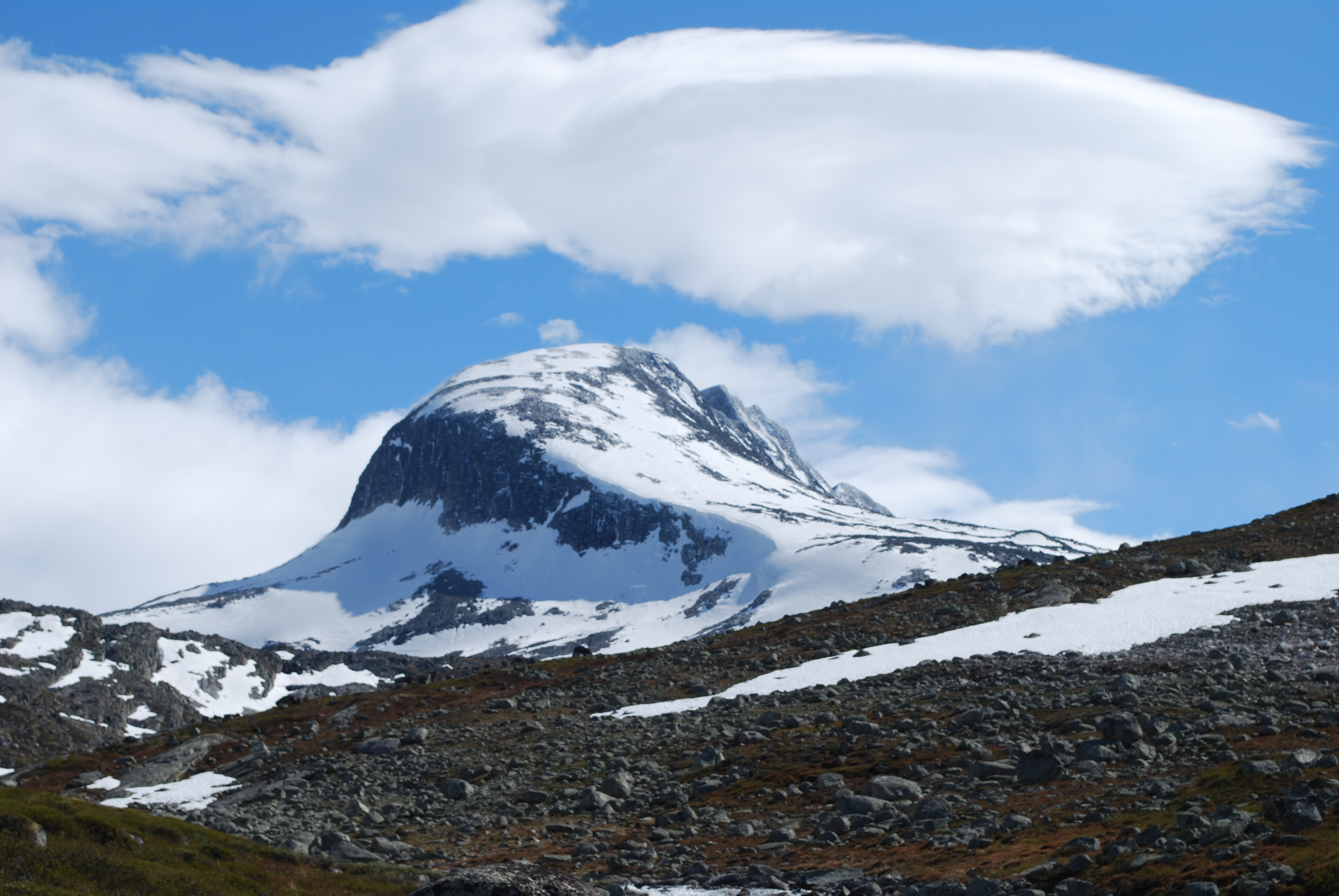 Tverrådalskyrkja 2088 meters in Breheimen, situated at the border of Luster and Sjåk in Norway.